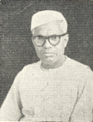 C Krishnan Nair, an Indian independence-era politician and Gandhian, Member of Indian Parliament (1952 and 1957) representing Outer Delhi. Refer the English Wikipedia page on C. Krishnan Nair for more details.